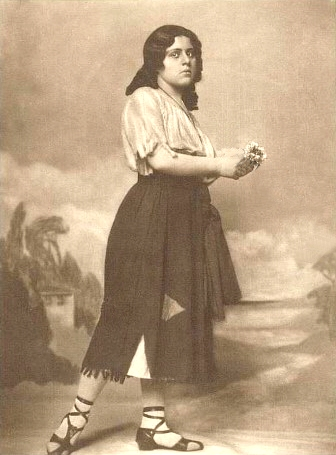 German actress Lotte Stein, photographed by Nicola Perscheid